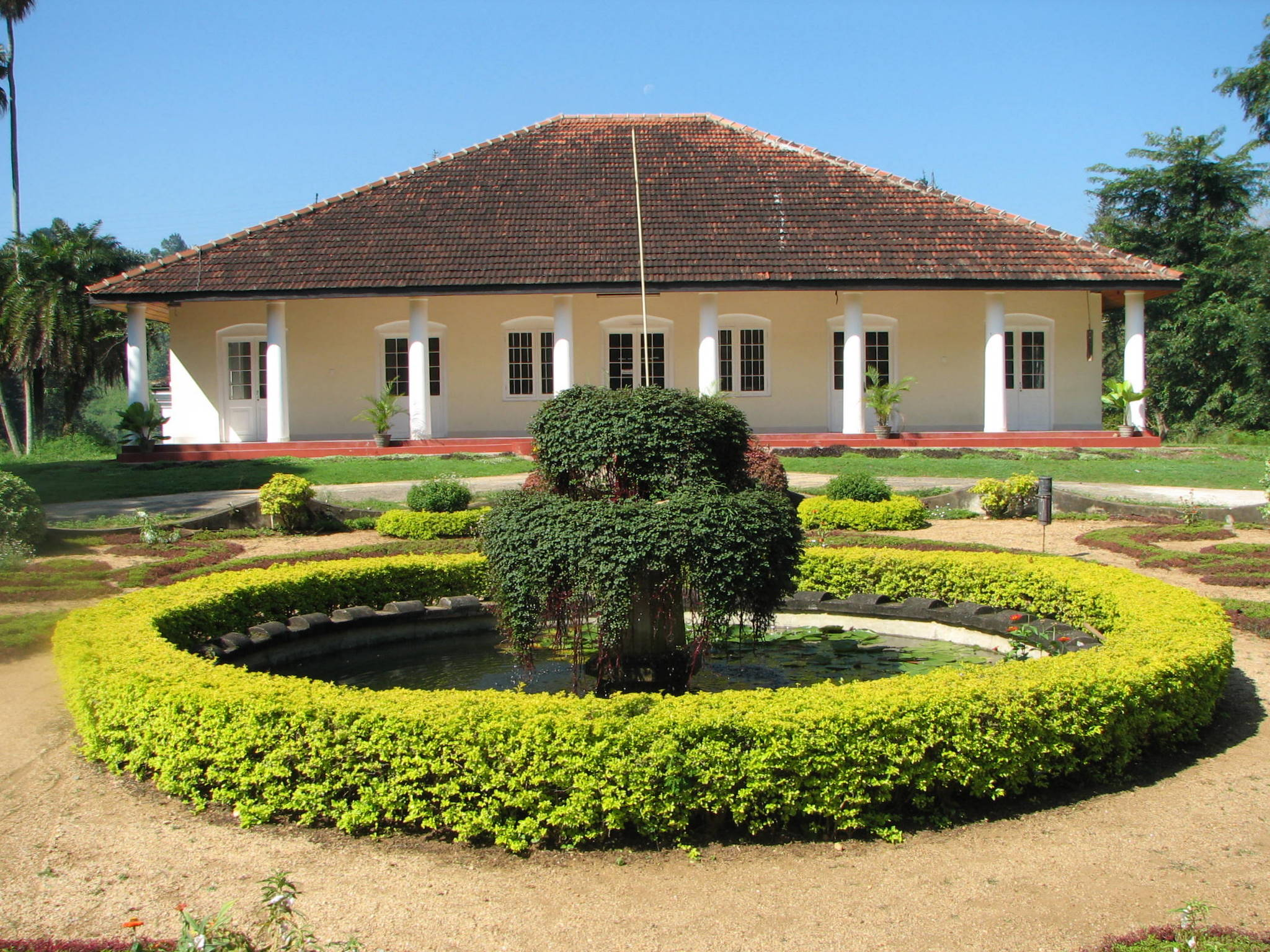 Botanical Garden of Peradeniya, Sri Lanka